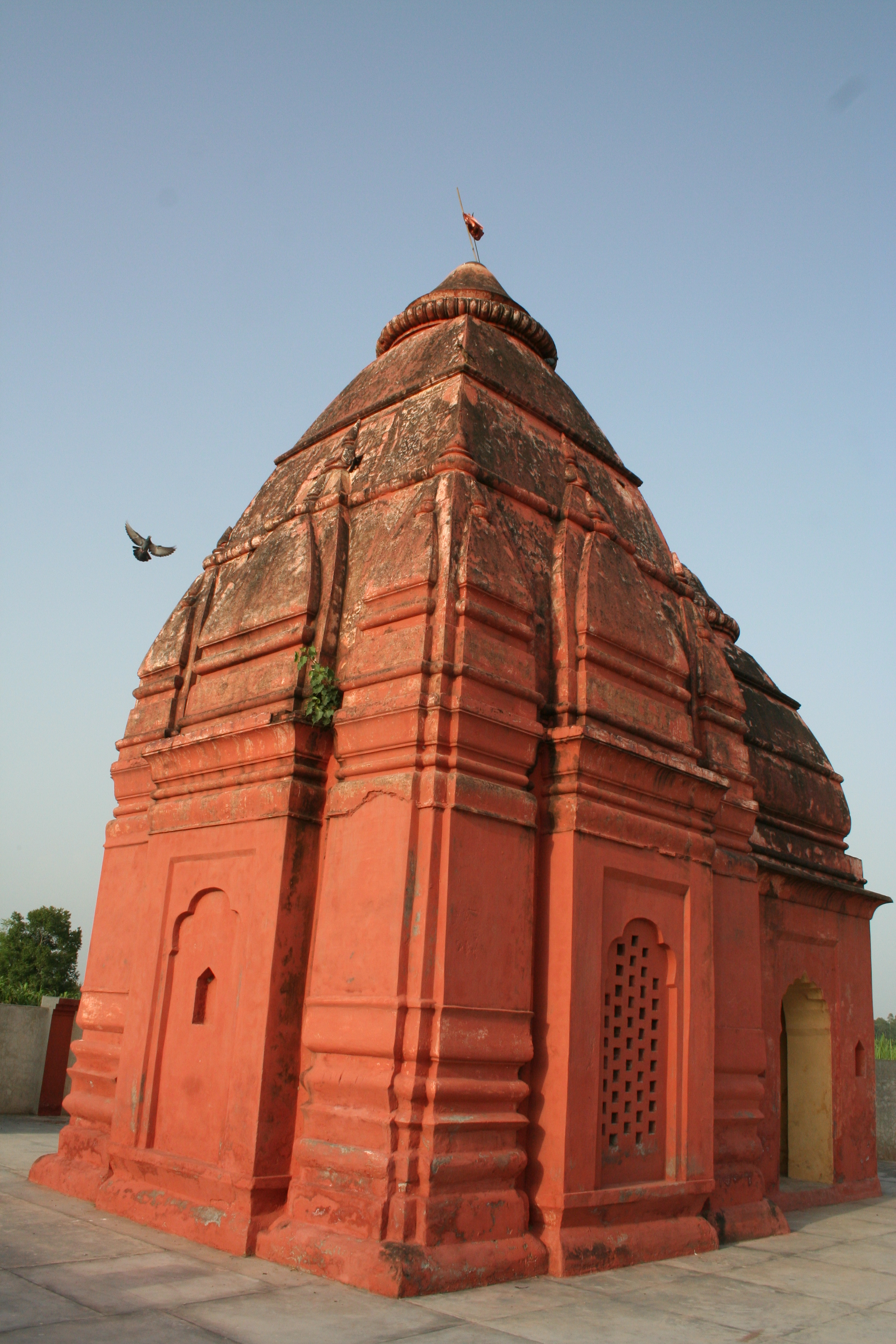 Karneshwar Mandir - Believed to have been founded by Karna/ Radheya - Hastinapur